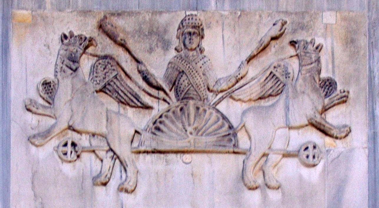 11th century relief with Alexander the Great at the wall of San Marco, in Venice. Relief from Costantinople.